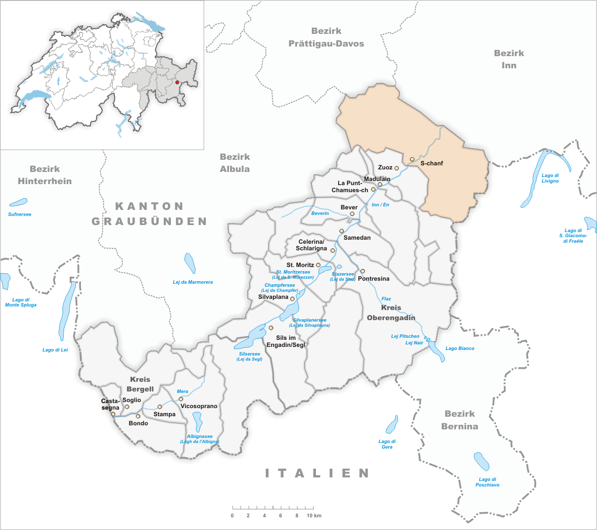 Municipality S-chanf